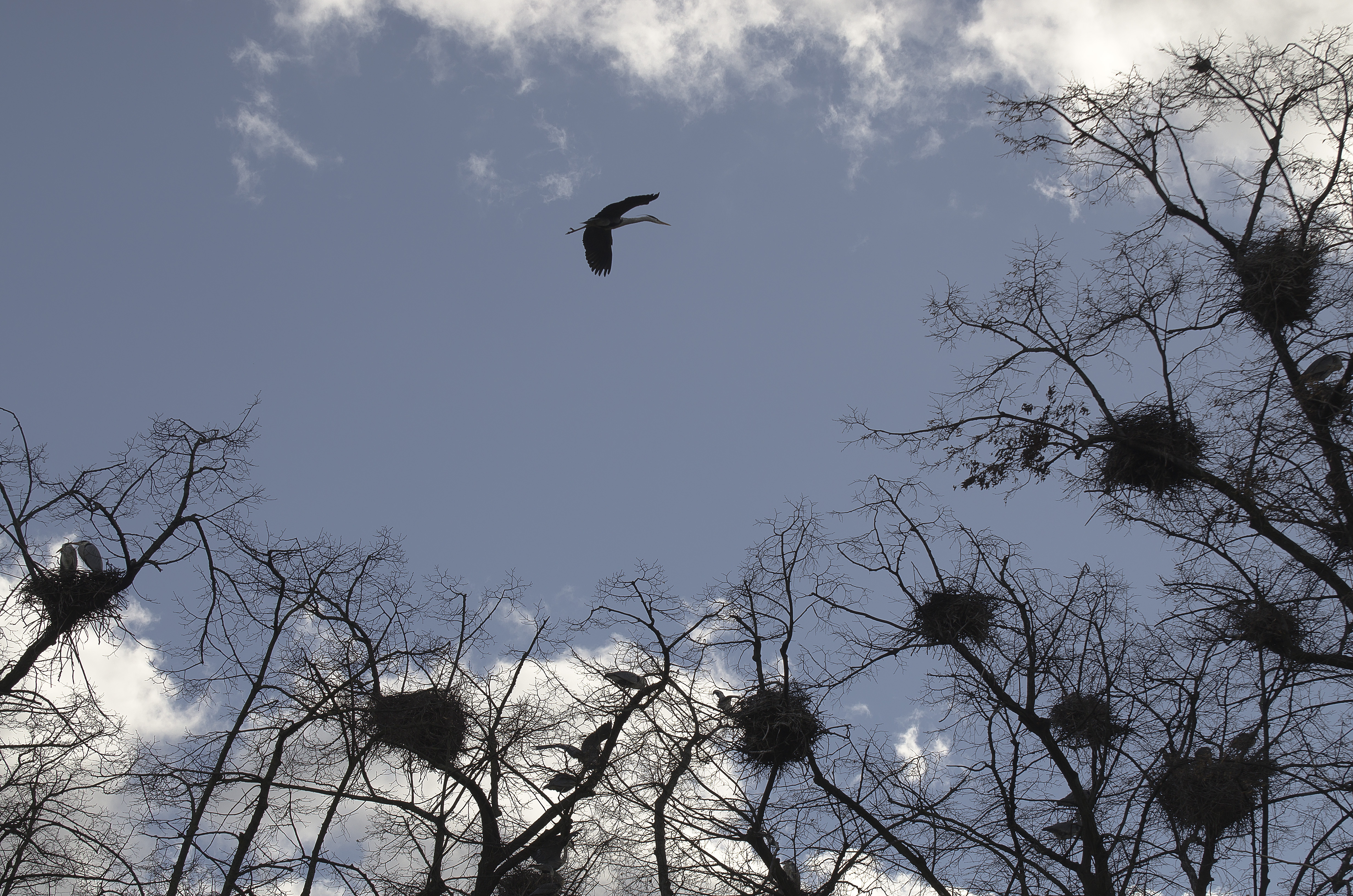 Colony of grey herons (Ardea cinerea) on the premises of the Wilhelma zoo, Stuttgart, Germany